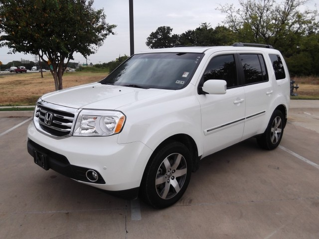 Picture of an Post-Facelift 2012 Honda Pilot Touring.